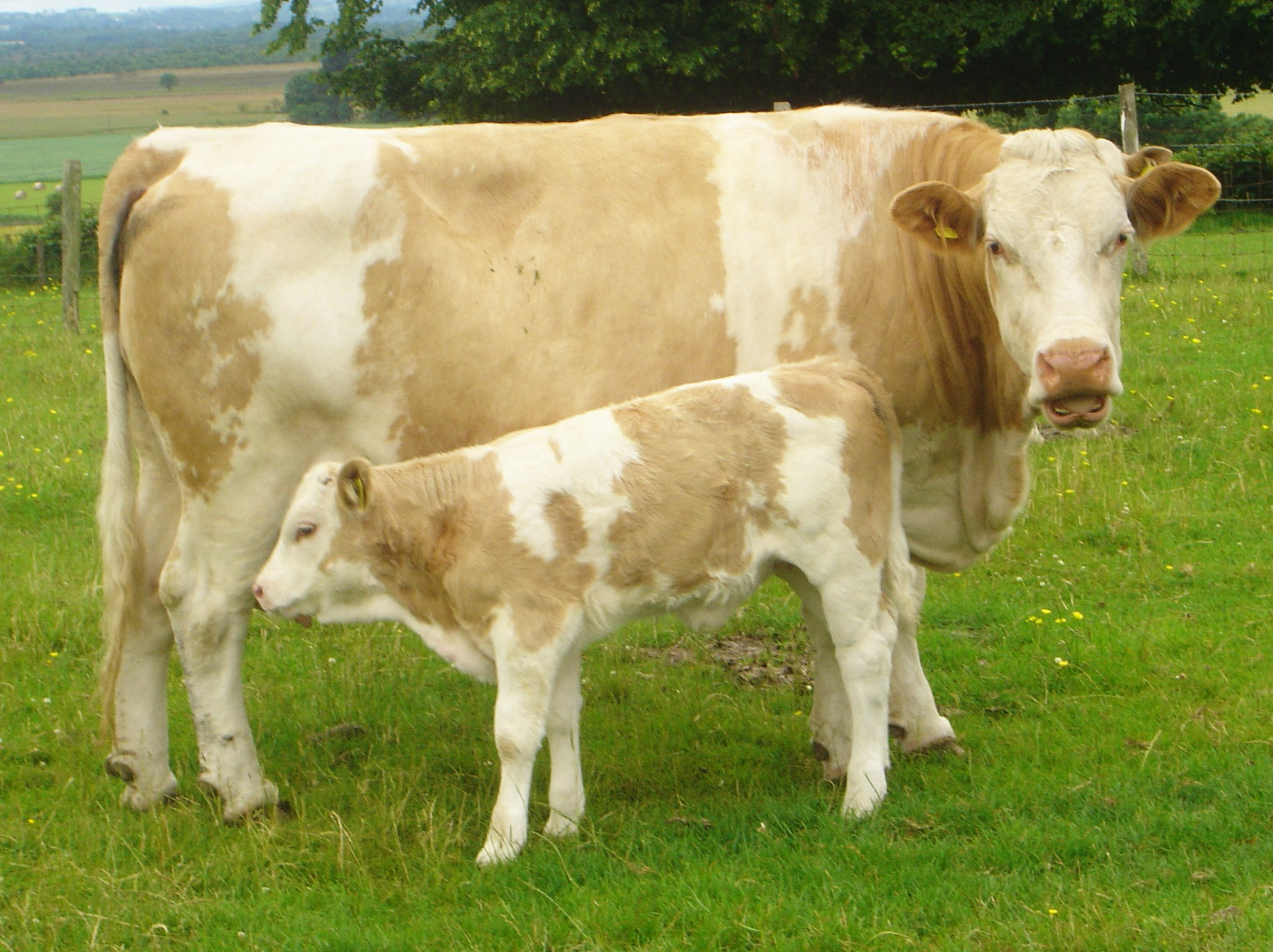 Bos taurus: cow and calf in Scotland